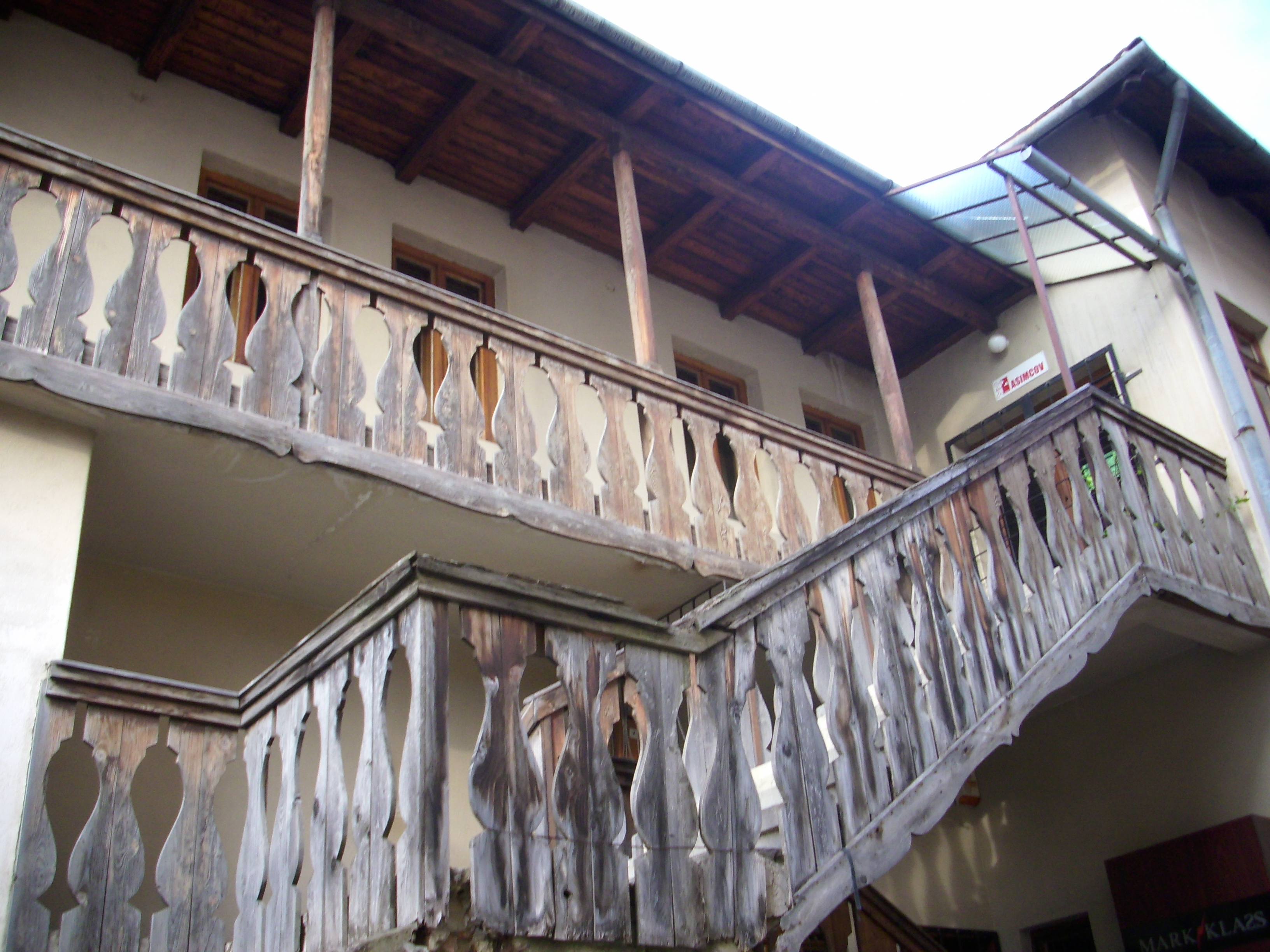 It's a wood house made in the XVIII century. this picture was taken in 2013 september.